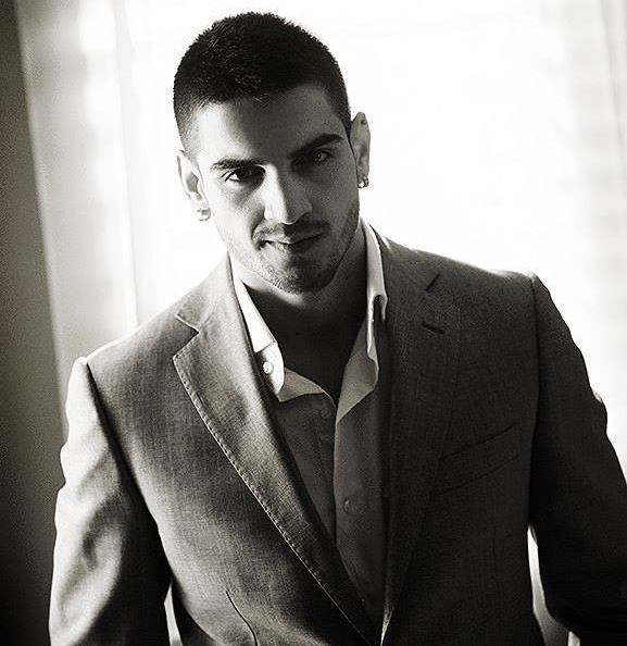 Damir Cicic's photo